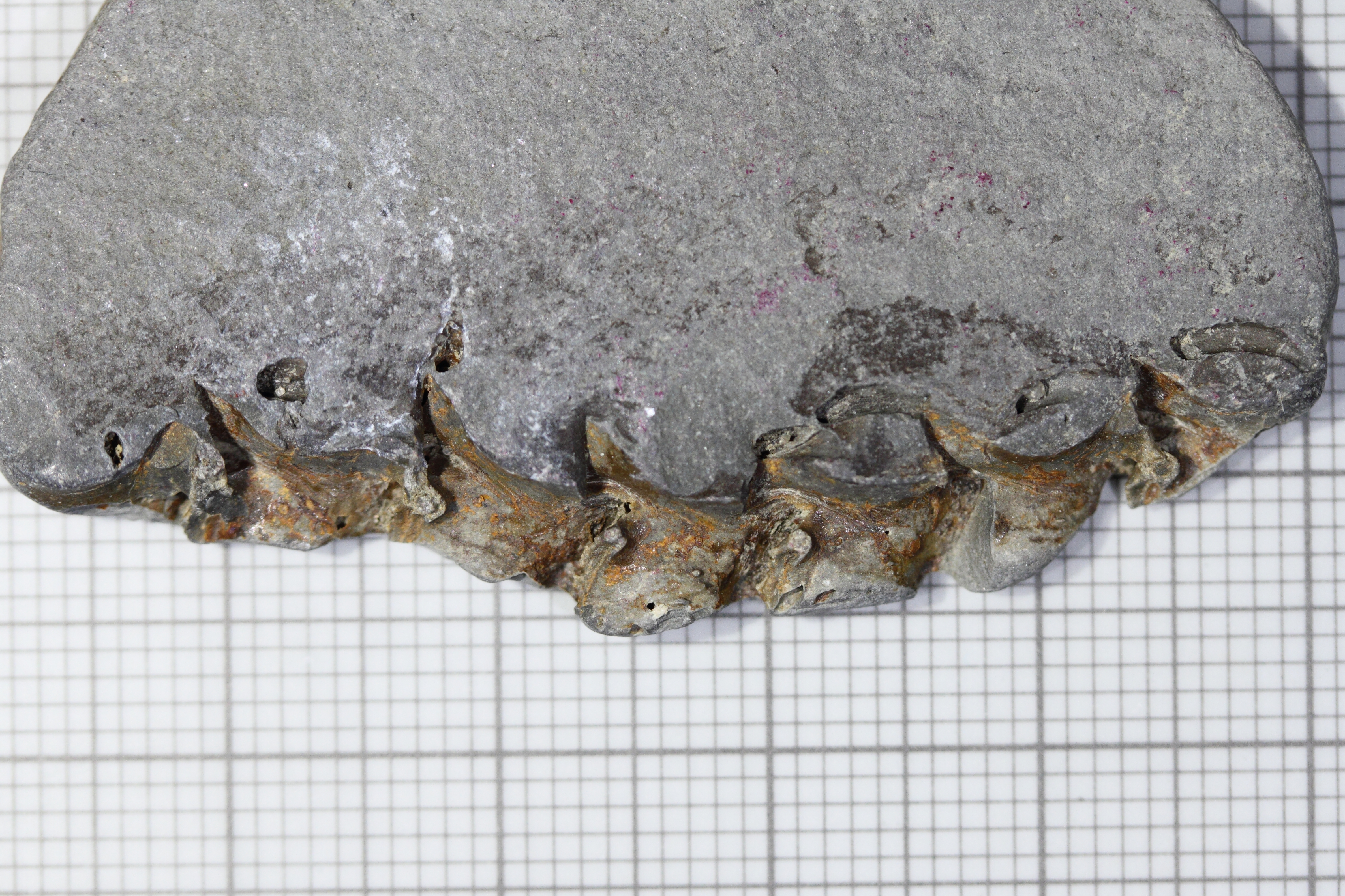 Snake Palaeophis. Early Eocene Fur Formation, Denmark